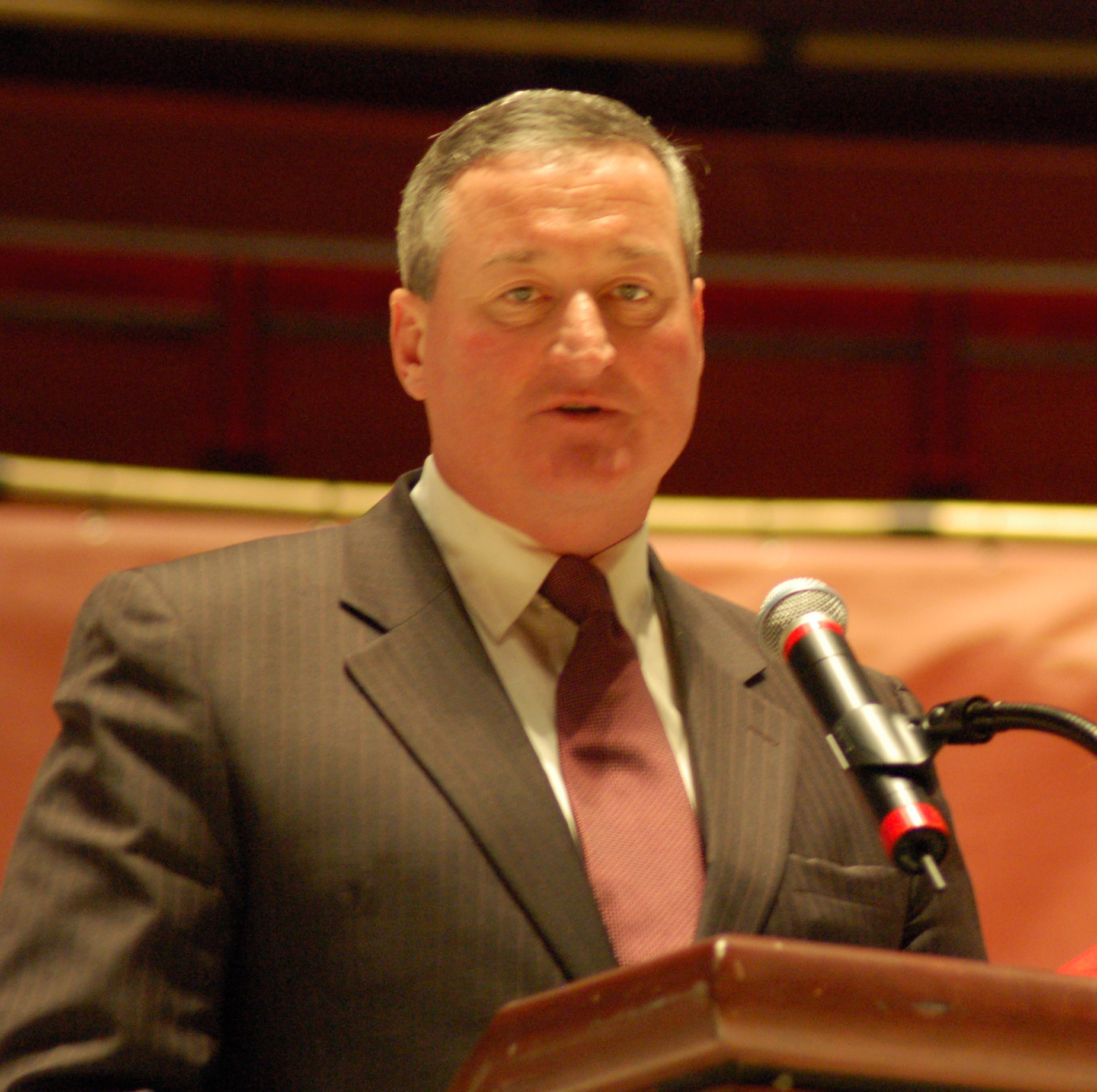 Welcoming the dancers and their families to Philly.